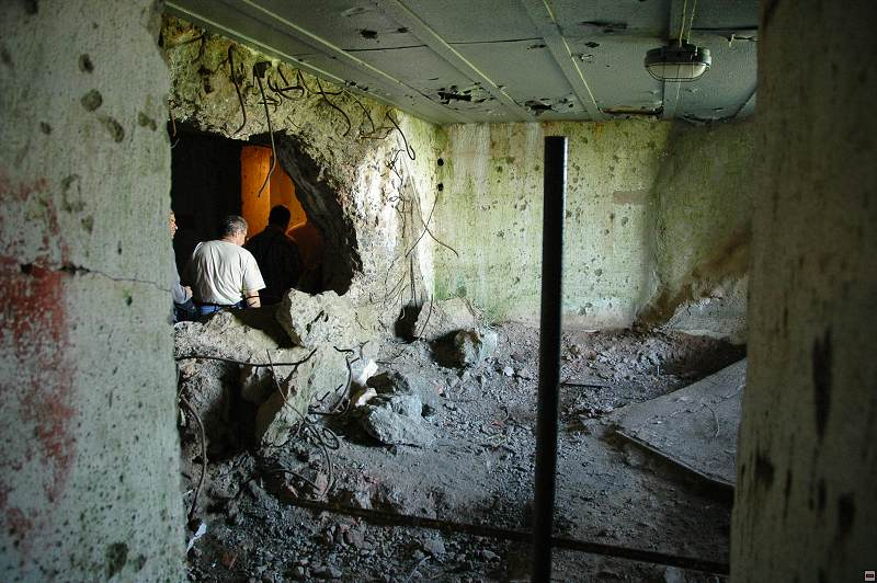 Indoor of fortress Dobrošov.